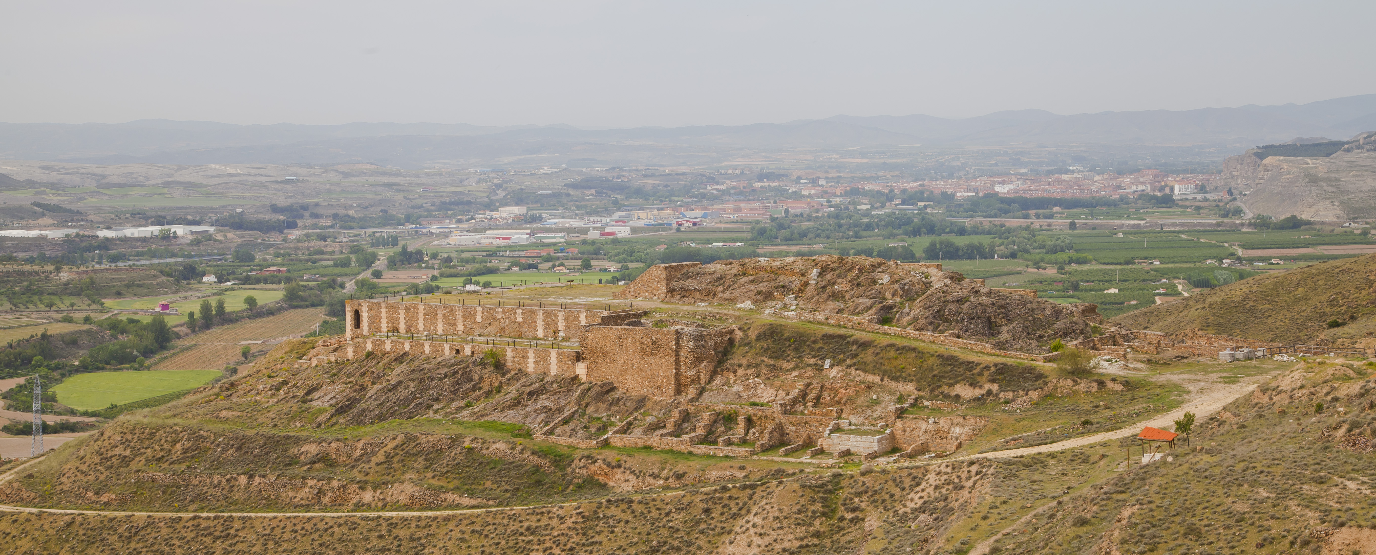 Ruins of the ancient roman city of Bilbilis, Calatayud, Spain